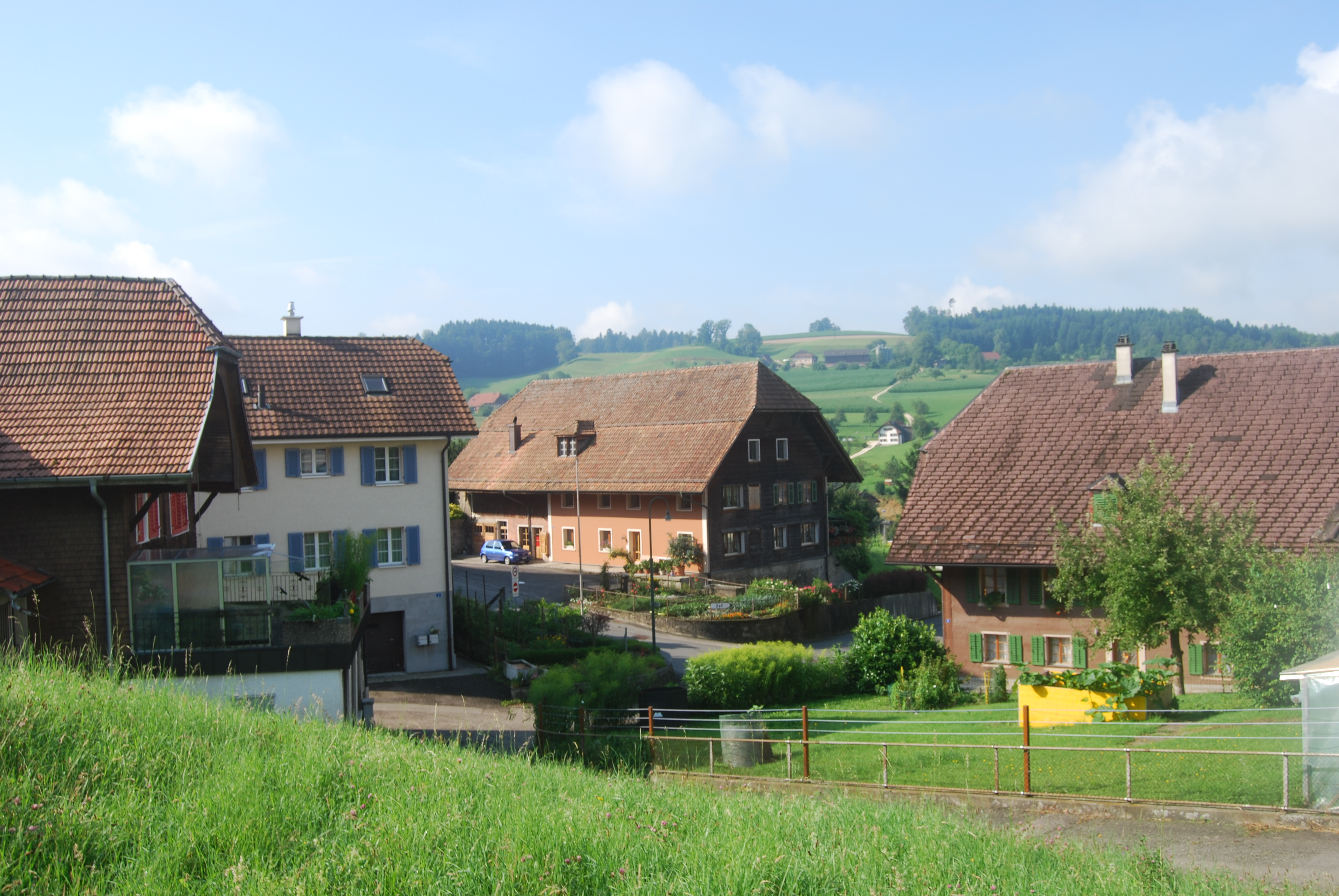 Grossdietwil, canton of Luzern, Switzerland